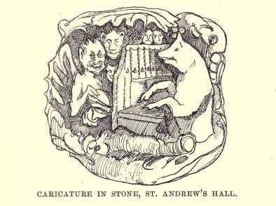 Satirical stone carving in St Andrew's Hall, Norwich, England, of the nineteenth century; believed to be a caricature of Richard Noverre Bacon.